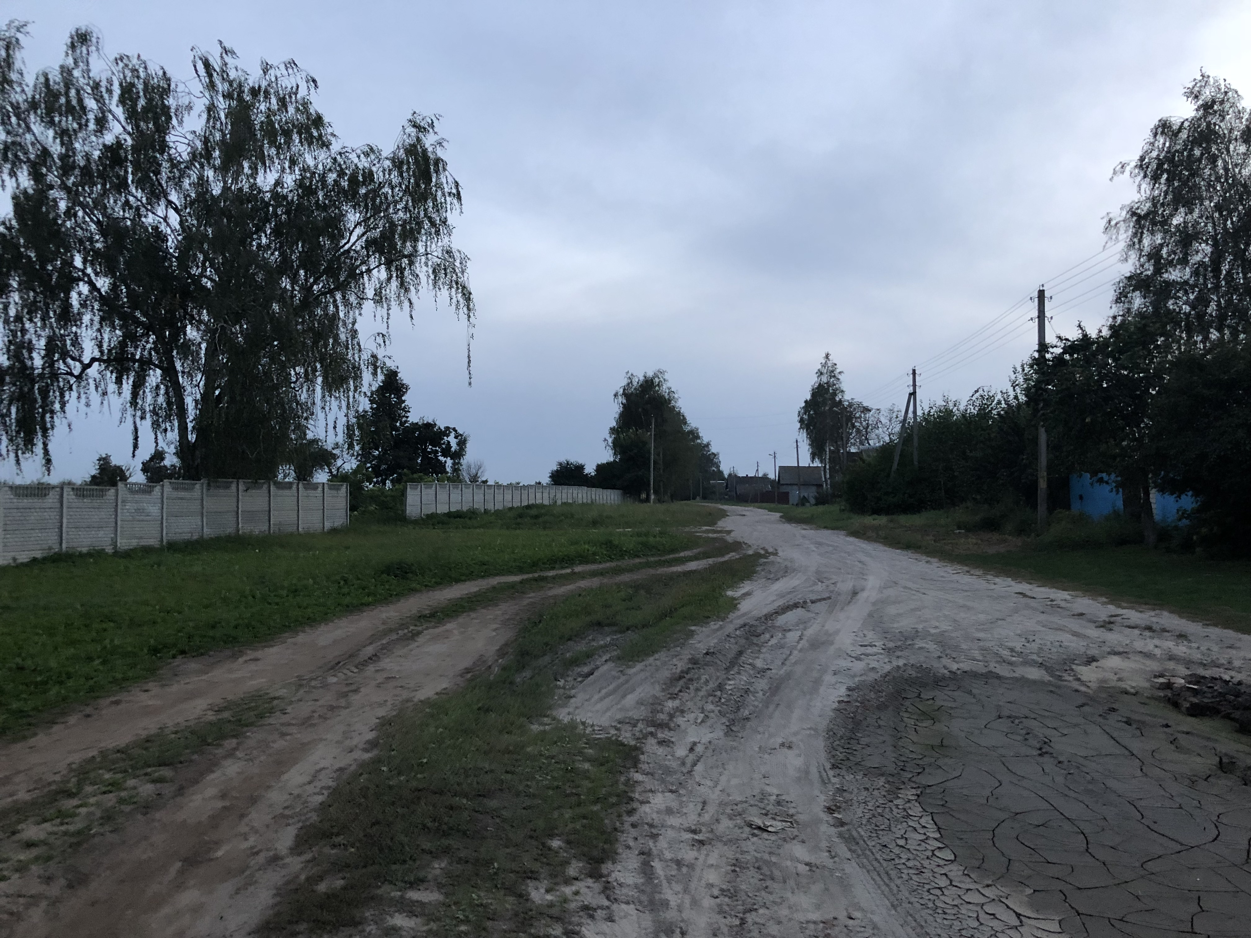 Ostrovy, Gomel Region, September 2018